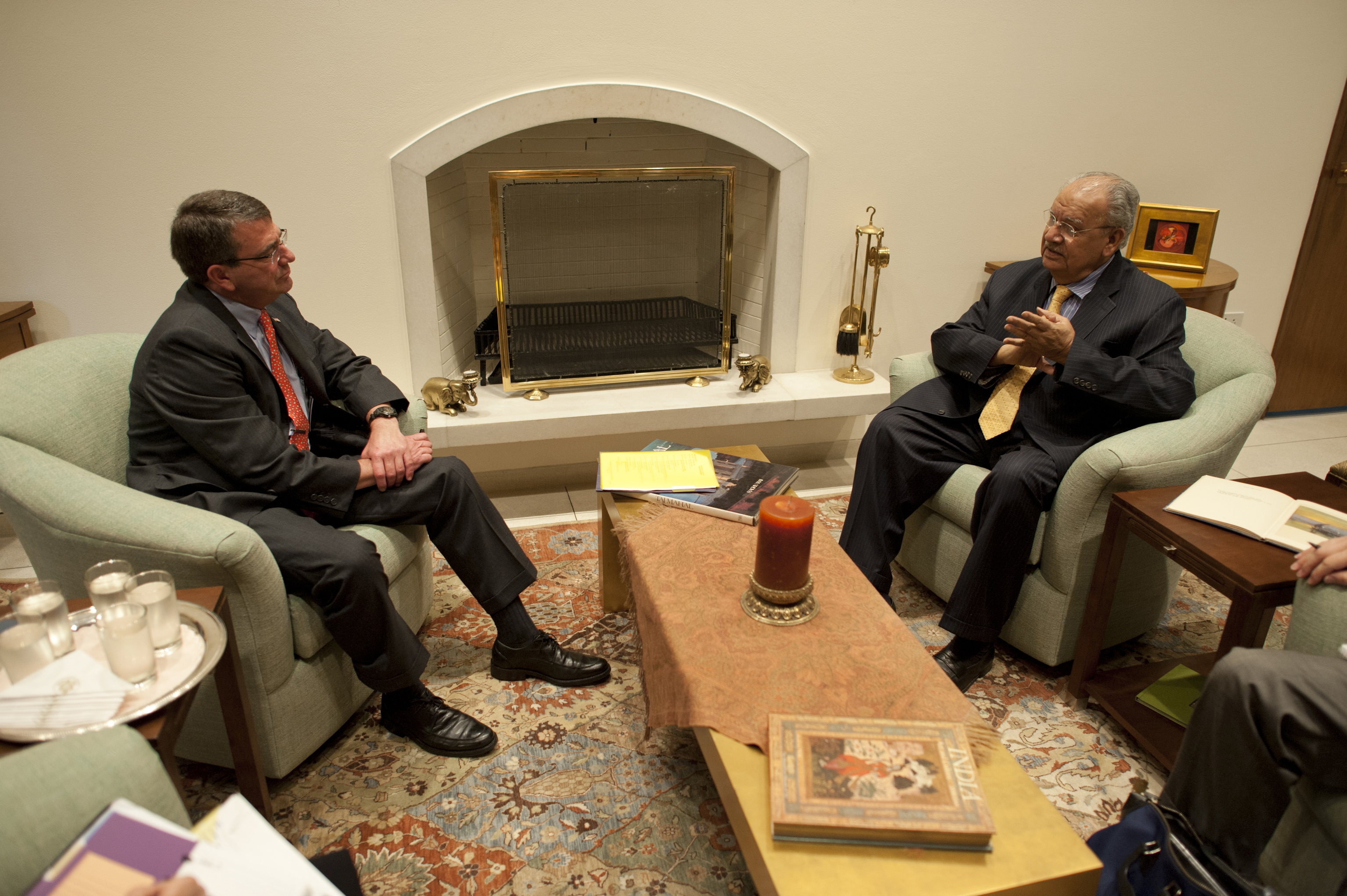 Deputy Secretary of Defense Ashton B. Carter meets with former Indian Ambassador to the U.S. Naresh Chandra in Delhi, India, on July 23, 2012. India is the fifth stop for Carter in a 10-day Asia-Pacific trip with stops in Hawaii, Guam, Japan, Thailand, and South Korea.